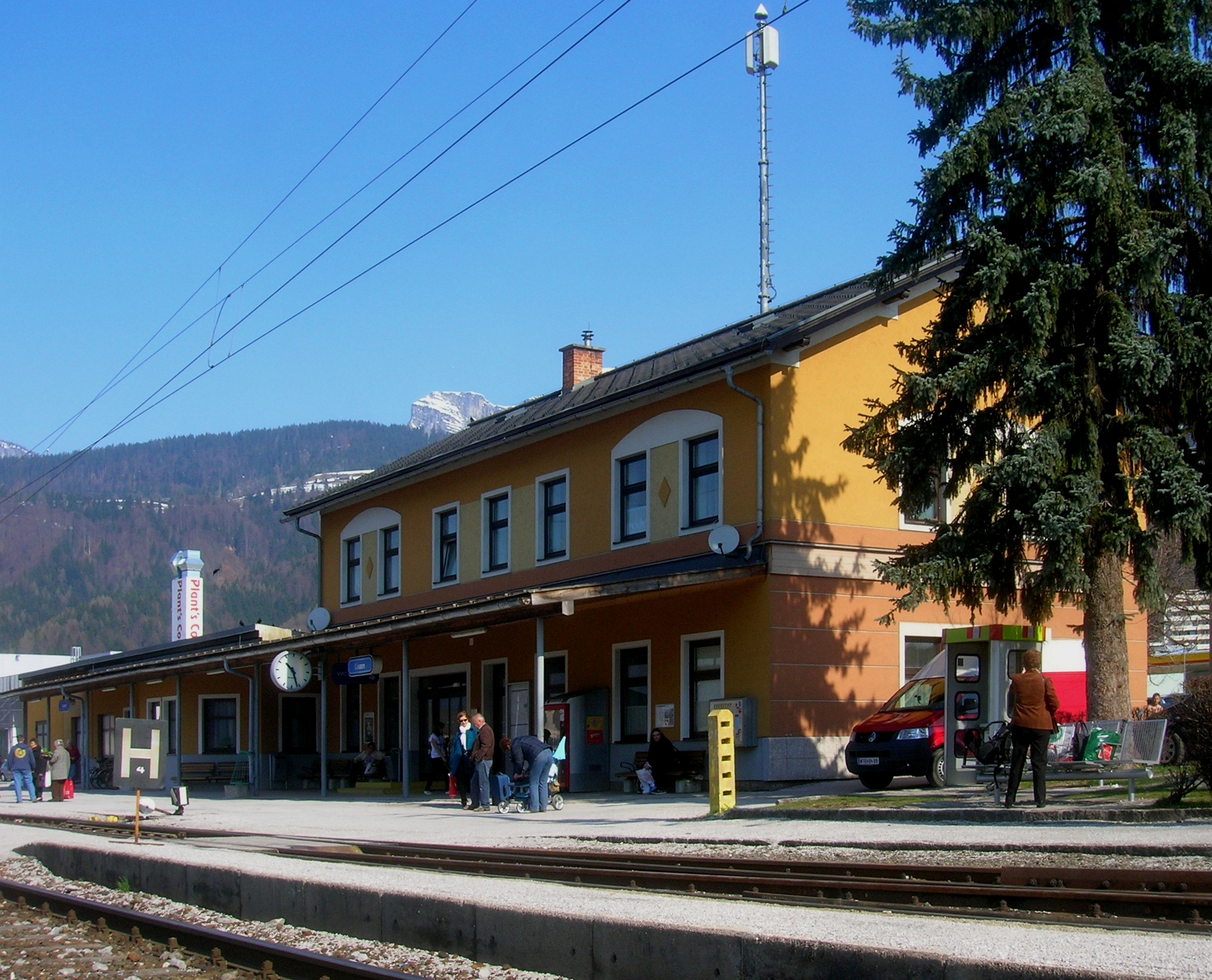 the train station in Liezen in Styria, Austria